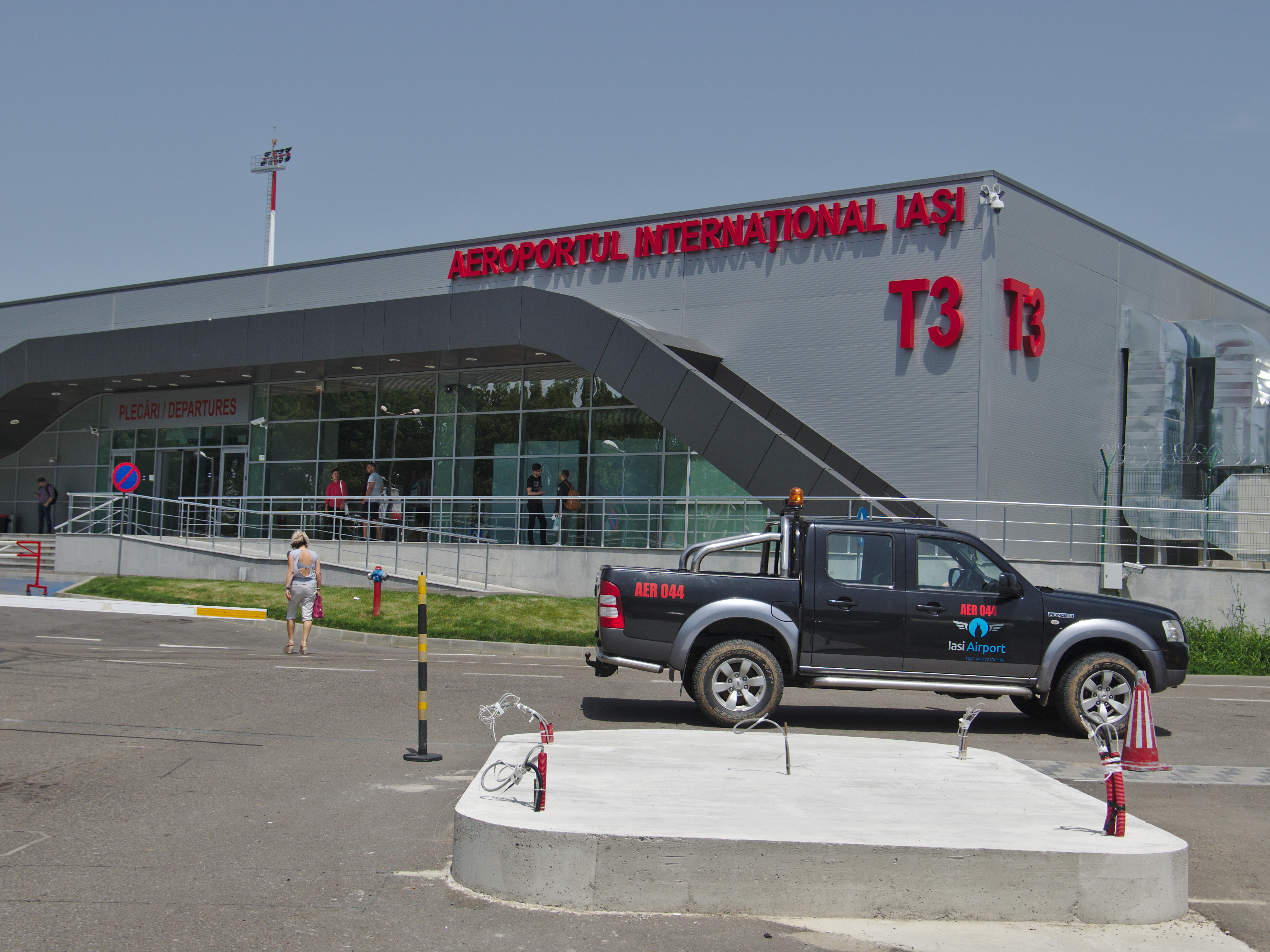 Terminal 3 building, Iași International Airport, Romania